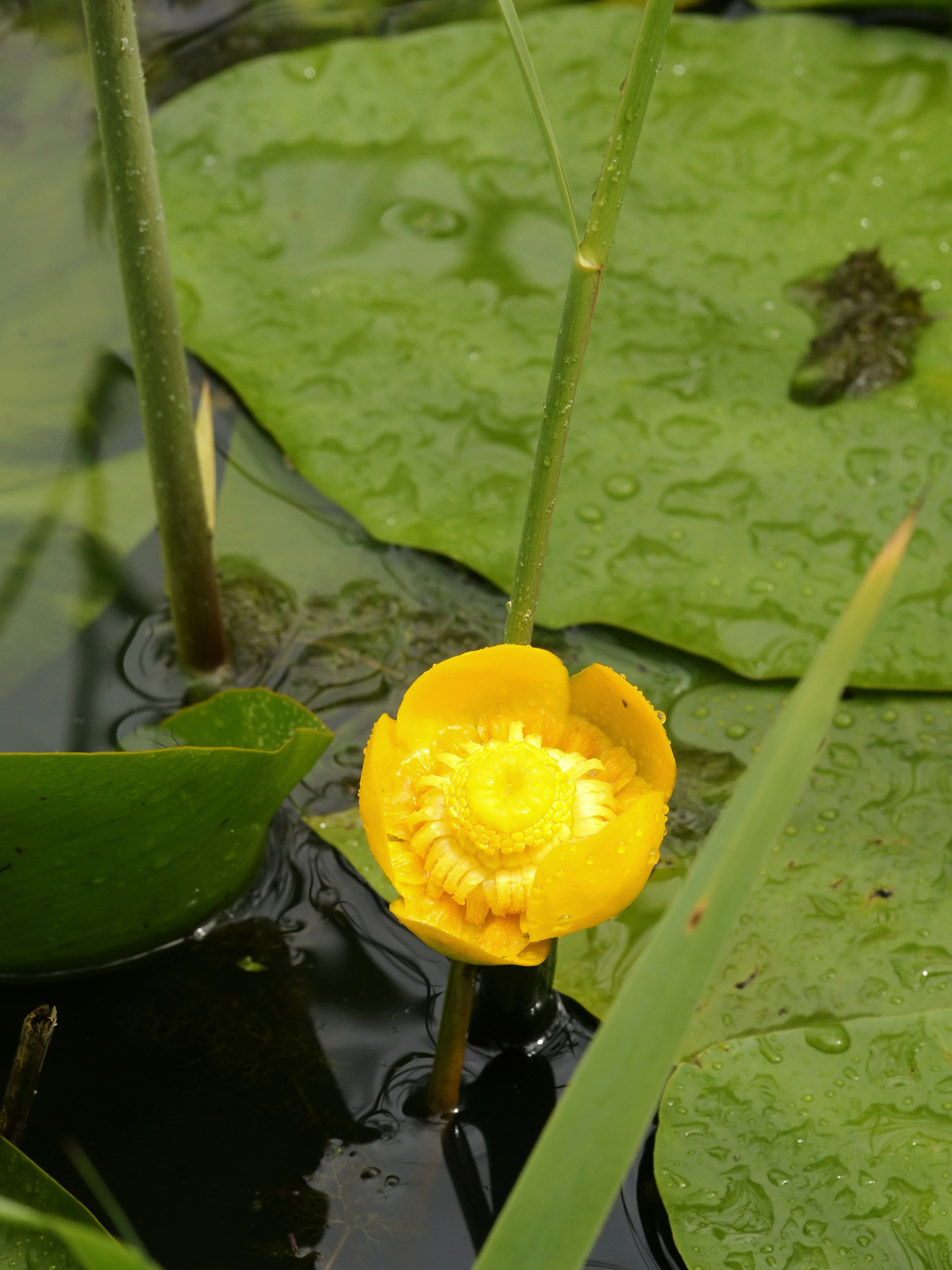 Yellow water-lily at the Leiemeersen in Oostkamp, Belgium.